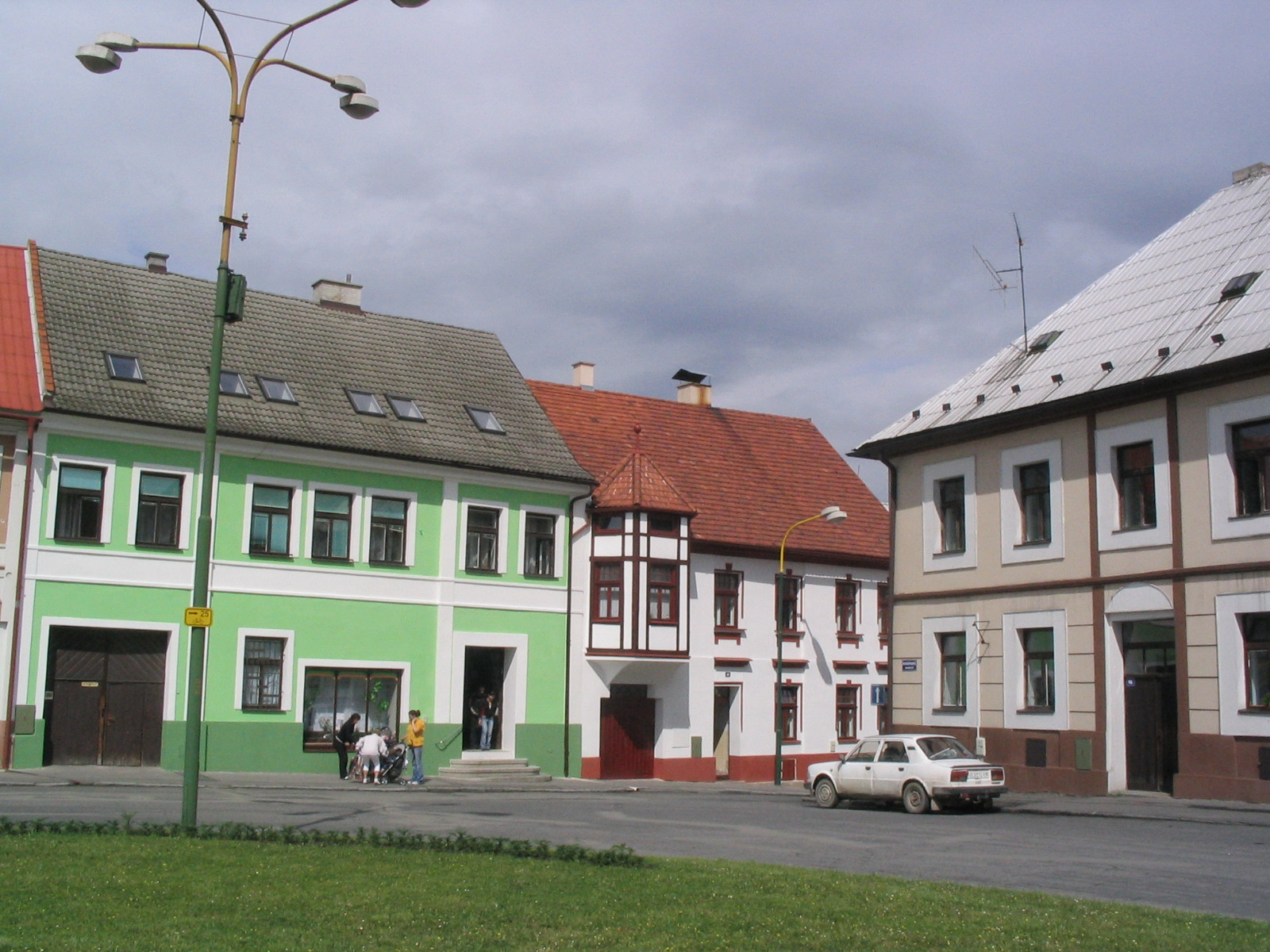 Market place in the town of Dubá, Czech Republic - Google Maps - Google Earth